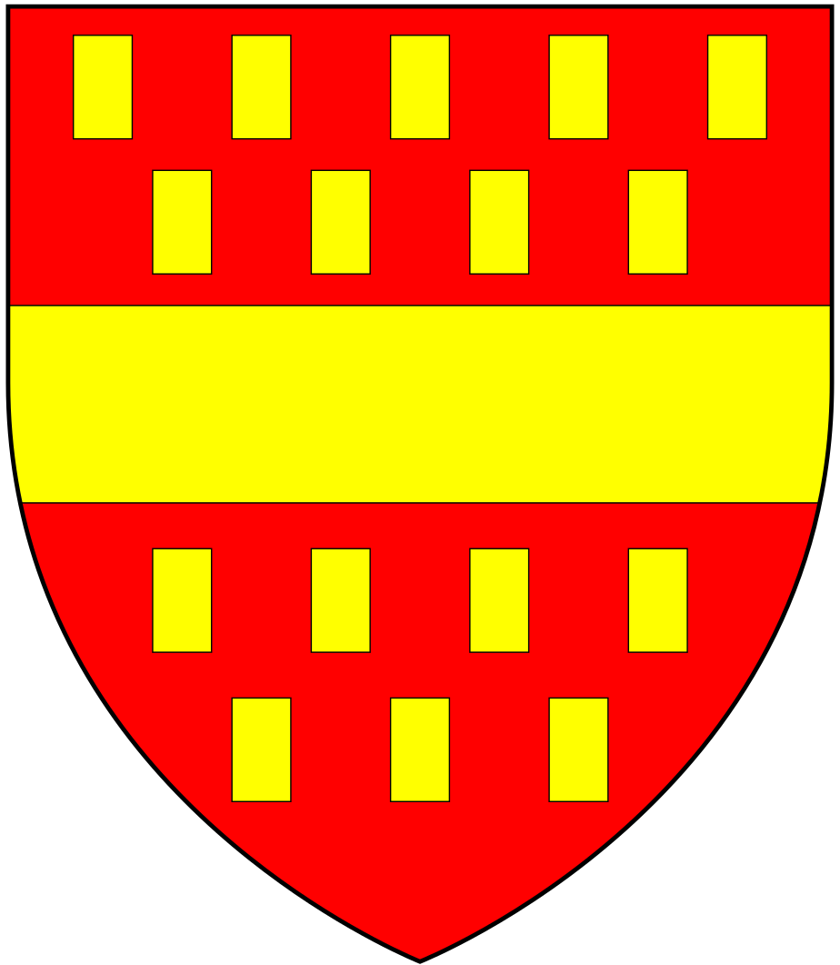 Arms of Lovain (alias de Louvain, Lovayne, etc.), feudal barons of Little Easton, Essex: Gules billety or, a fess of the last. As seen (quartered by Bourchier) on the garter stall plates in St George's Chapel, Windsor Castle, of Henry Bourchier, 1st earl of Essex (1404-1483) KG, and of his brother John Bourchier, Baron Berners (1415-1474) KG. The Garter stall plate of his grandson Henry Bourchier, 2nd earl of Essex (1468-1539) KG however shows a fess argent not or. The arms of Lovain are visible sculpted in Little Easton parish Church, also on the Tudor gatehouse of Tawstock Court, North Devon, a later seat of the Bourchiers, Earls of Bath